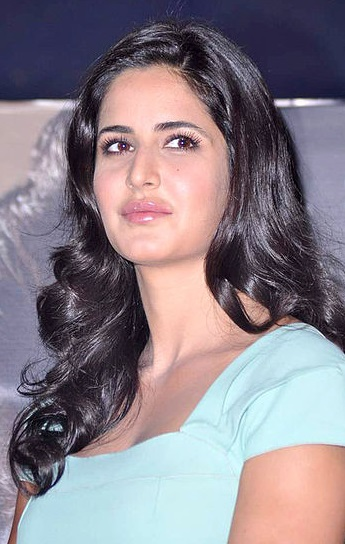 Katrina Kaif at the launch of 'Ek Tha Tiger's first song 'Mashallah', 2012.